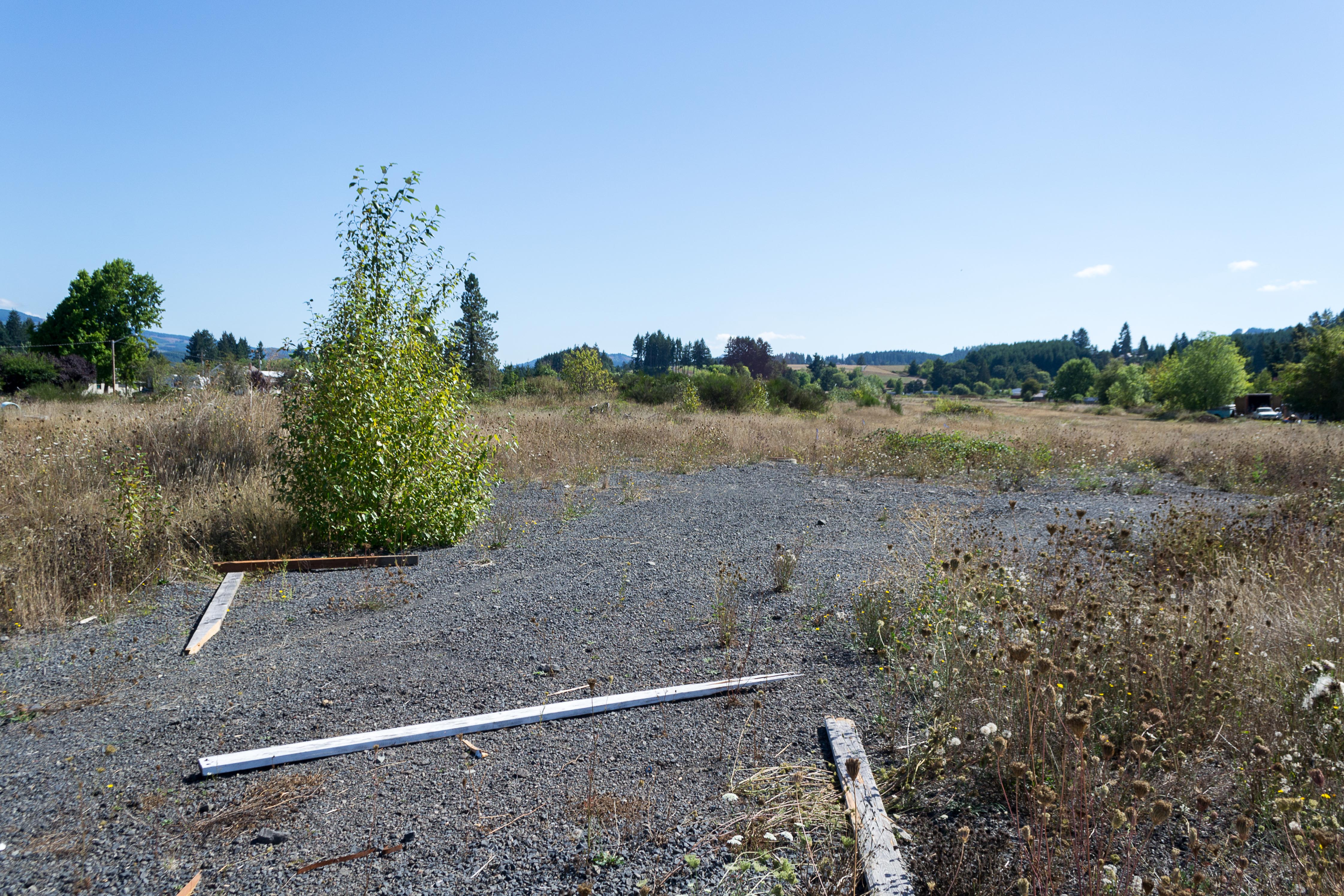 The former airport site in Sweet Home, Oregon